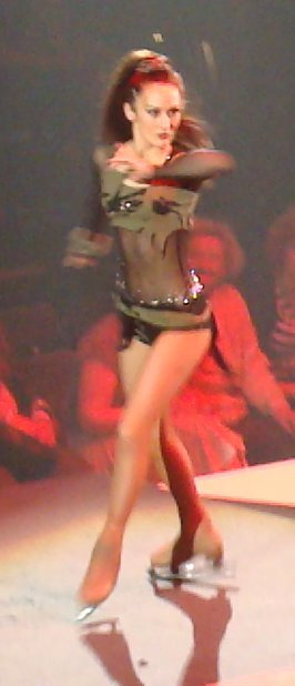 Photograph of Frankie Poultney, taken at the Wembley Arena, London during a performance of Dancing on Ice tour on 13 April 2009.